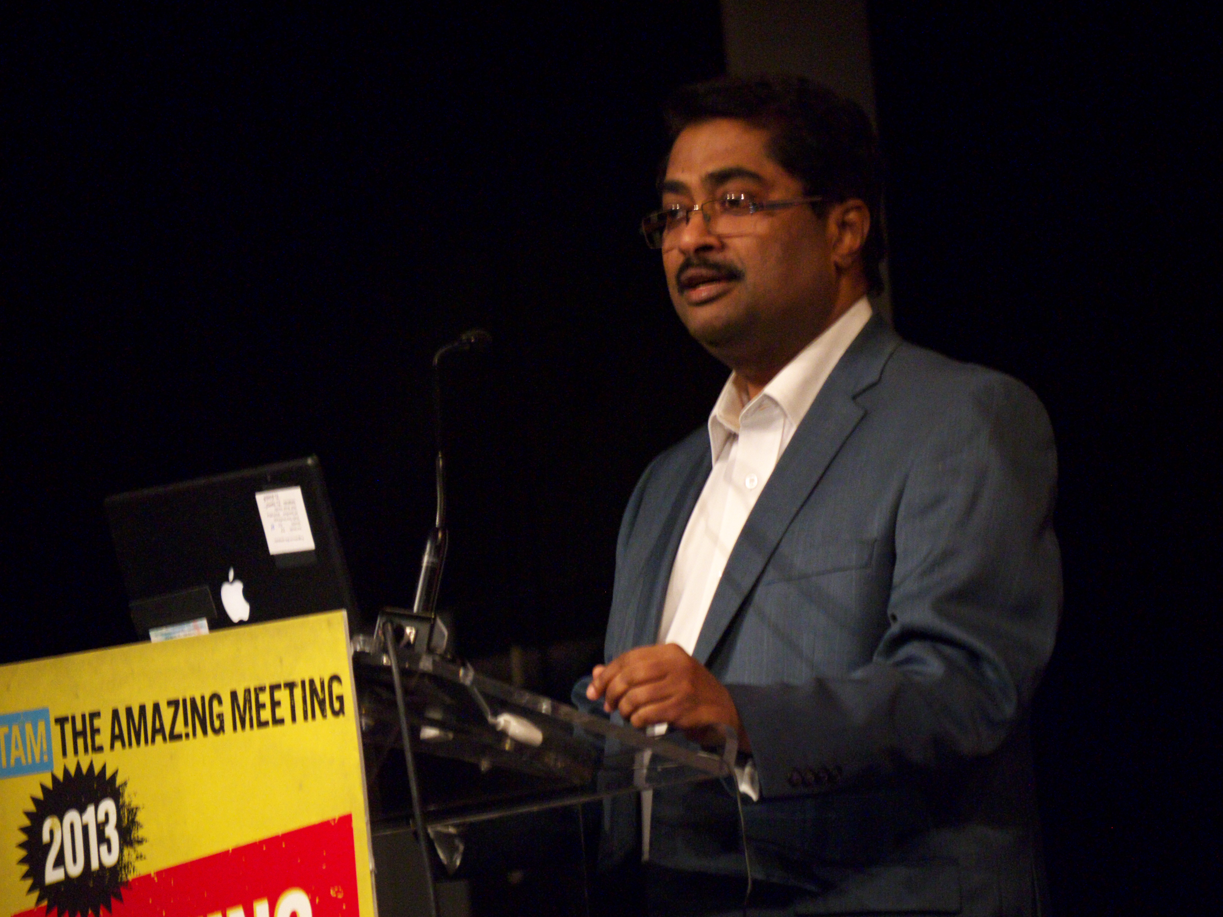 Sanal Edamaruku speaking at TAM2013 Indian Gurus: From Flying Fakirs and Starving Saints